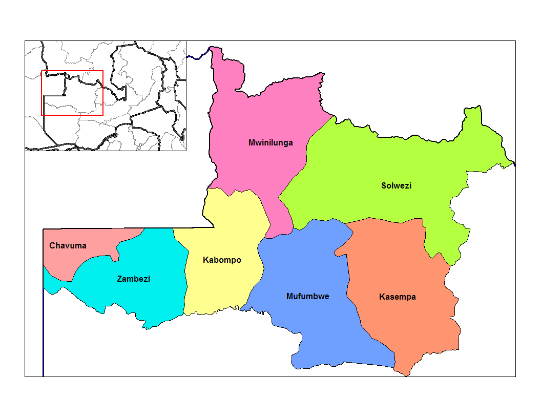 Map of the districts of North-Western province in Zambia. Created by Rarelibra 15:36, 28 December 2006 (UTC) for public domain use, using MapInfo Professional v8.5 and various mapping resources.